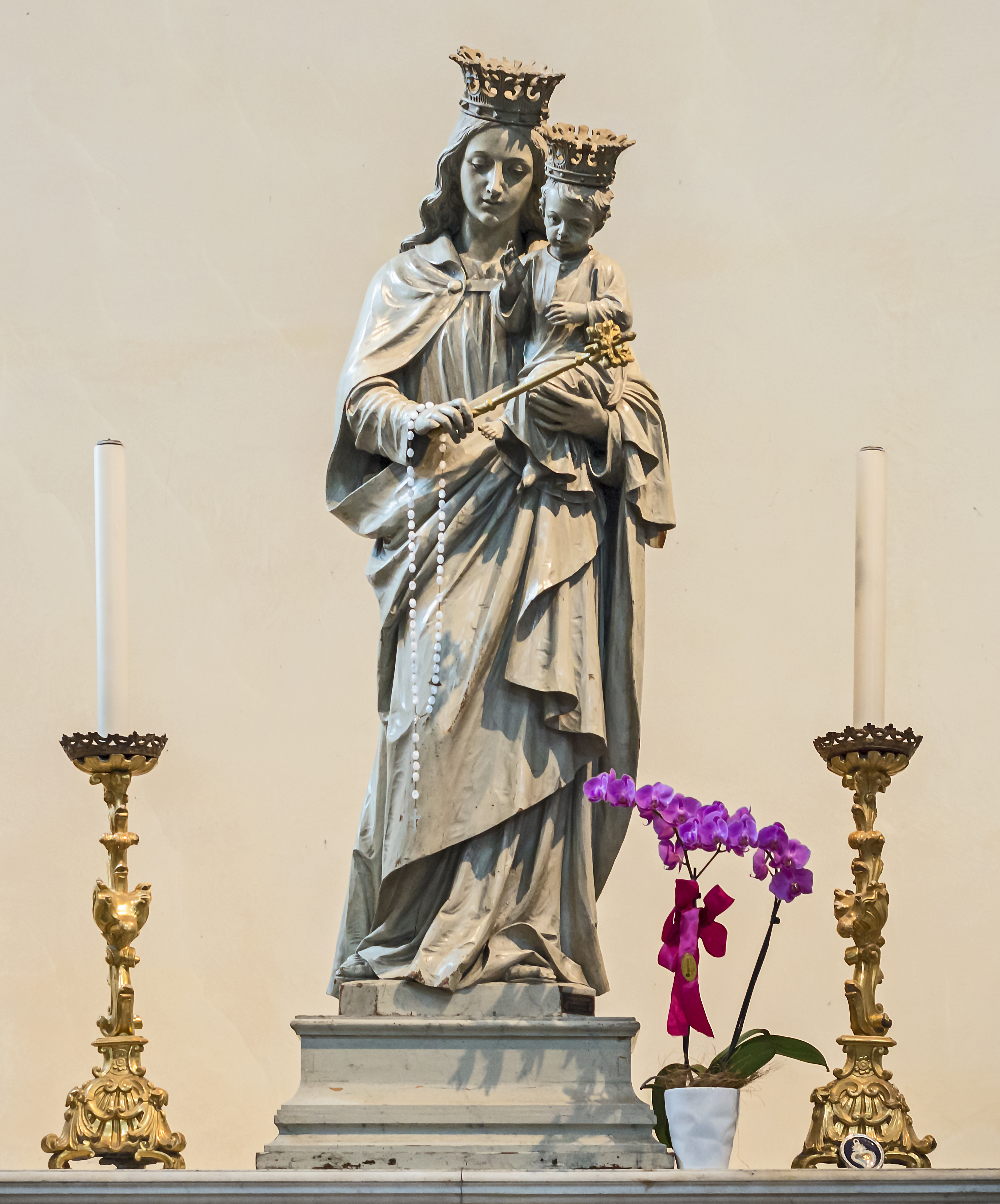 Treviso Cathedral - Madanona Chapel - Wooden statue at the center, recent work (XIXe) by Ferdinand Stuflesser, artist of Val Gardena, is Mary Help of Christians.